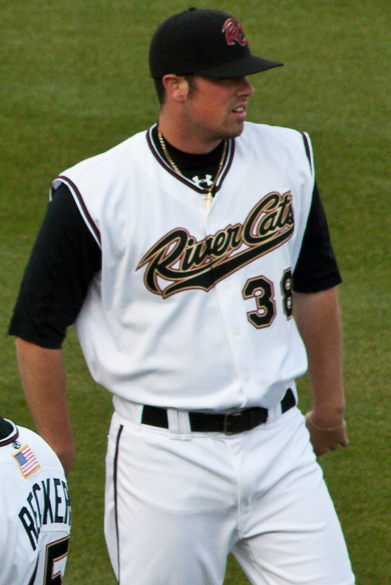 Description Vincent Mazzaro Date25 April 2009SourceOwn workAuthorFabrictramp / talk to mePermission(Reusing this file) I own the copyright 18:13, 30 April 2009 . . Fabrictramp . . 789×1,182 (944 KB) Vincent Mazzaro